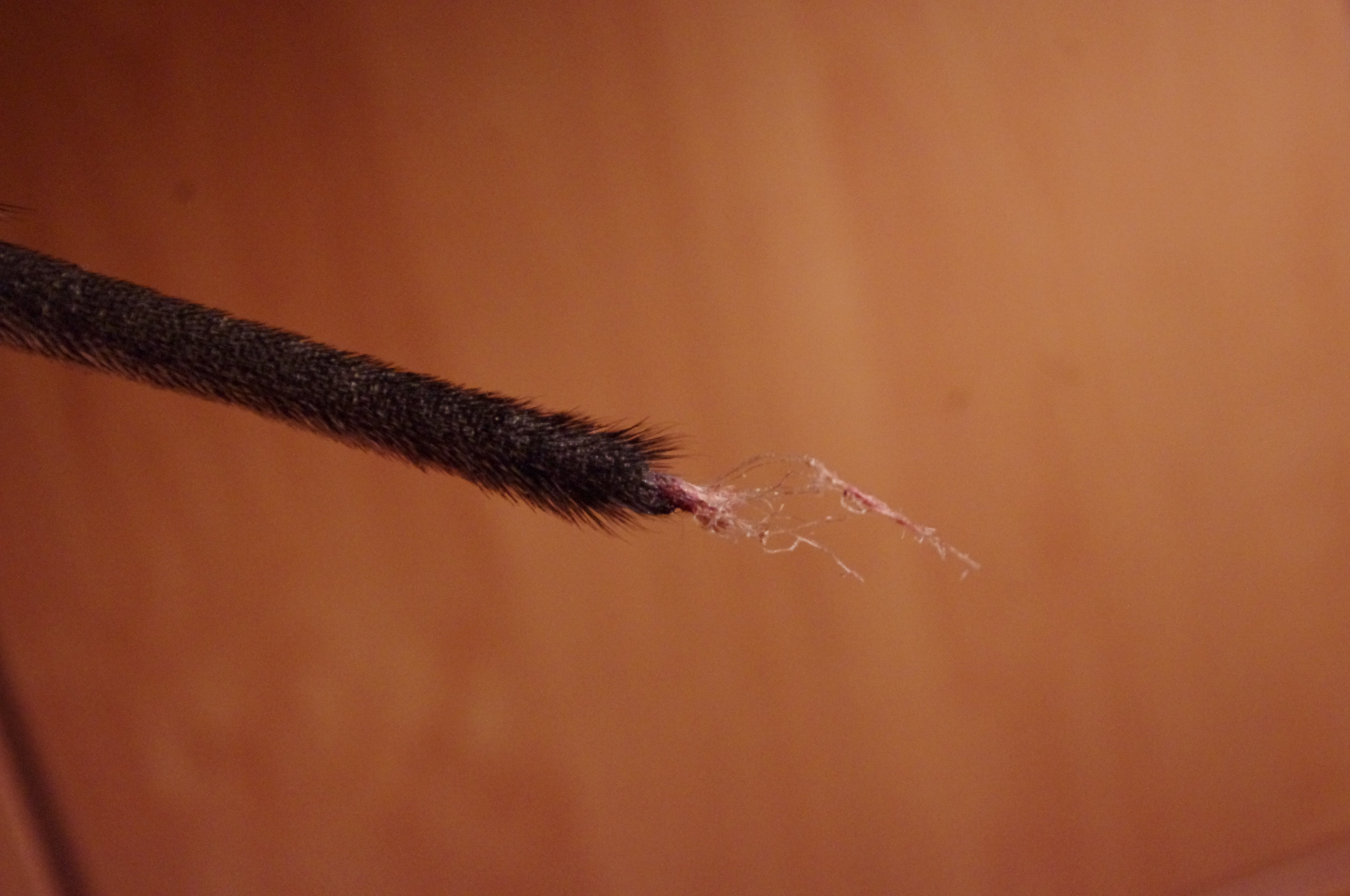 The tail of degu (Octodon degus) four days after autotomy.